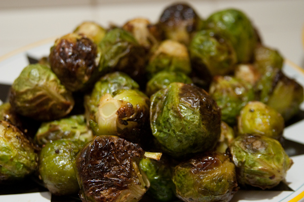 Roasted brussels sprouts